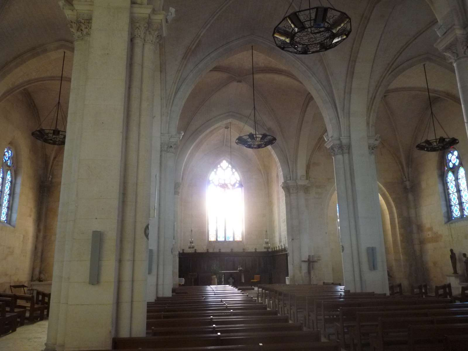 church of Segonzac, Charente, SW France